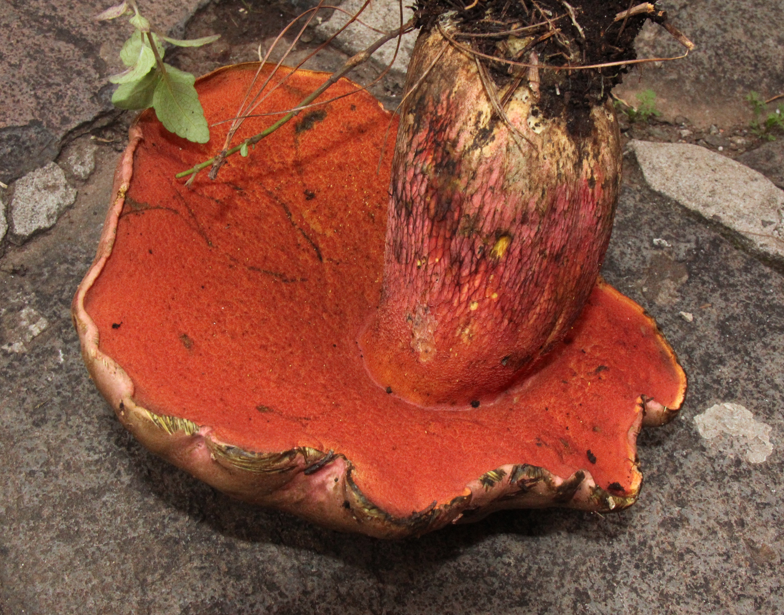 A fruit body of the bolete mushroom Boletus michoacanus Singer. Specimen found in Senguio, Michoacan, Mexico.